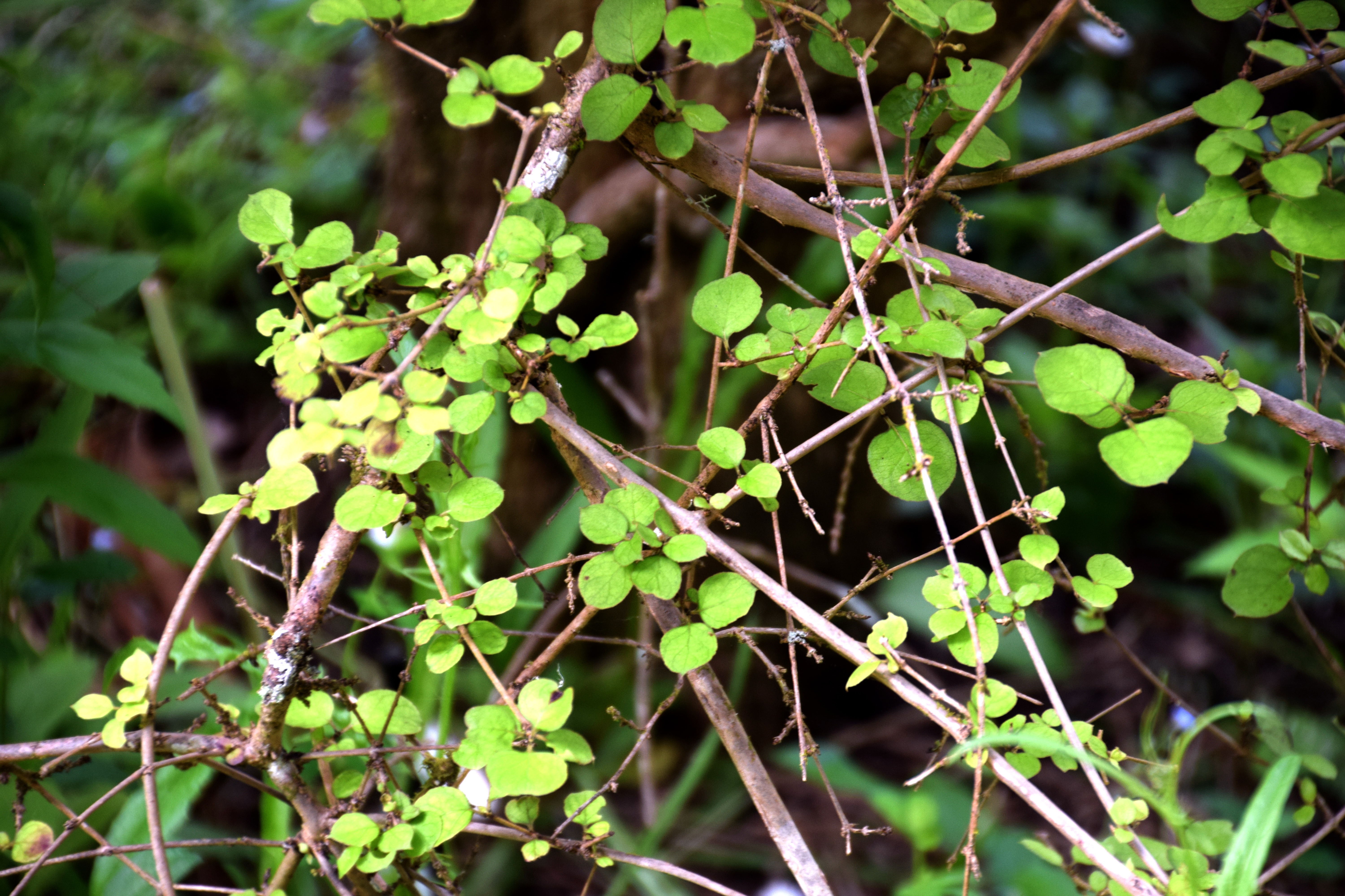 Coprosma areolata in Eastwoodhill Arboretum, Gisborne Region, New Zealand